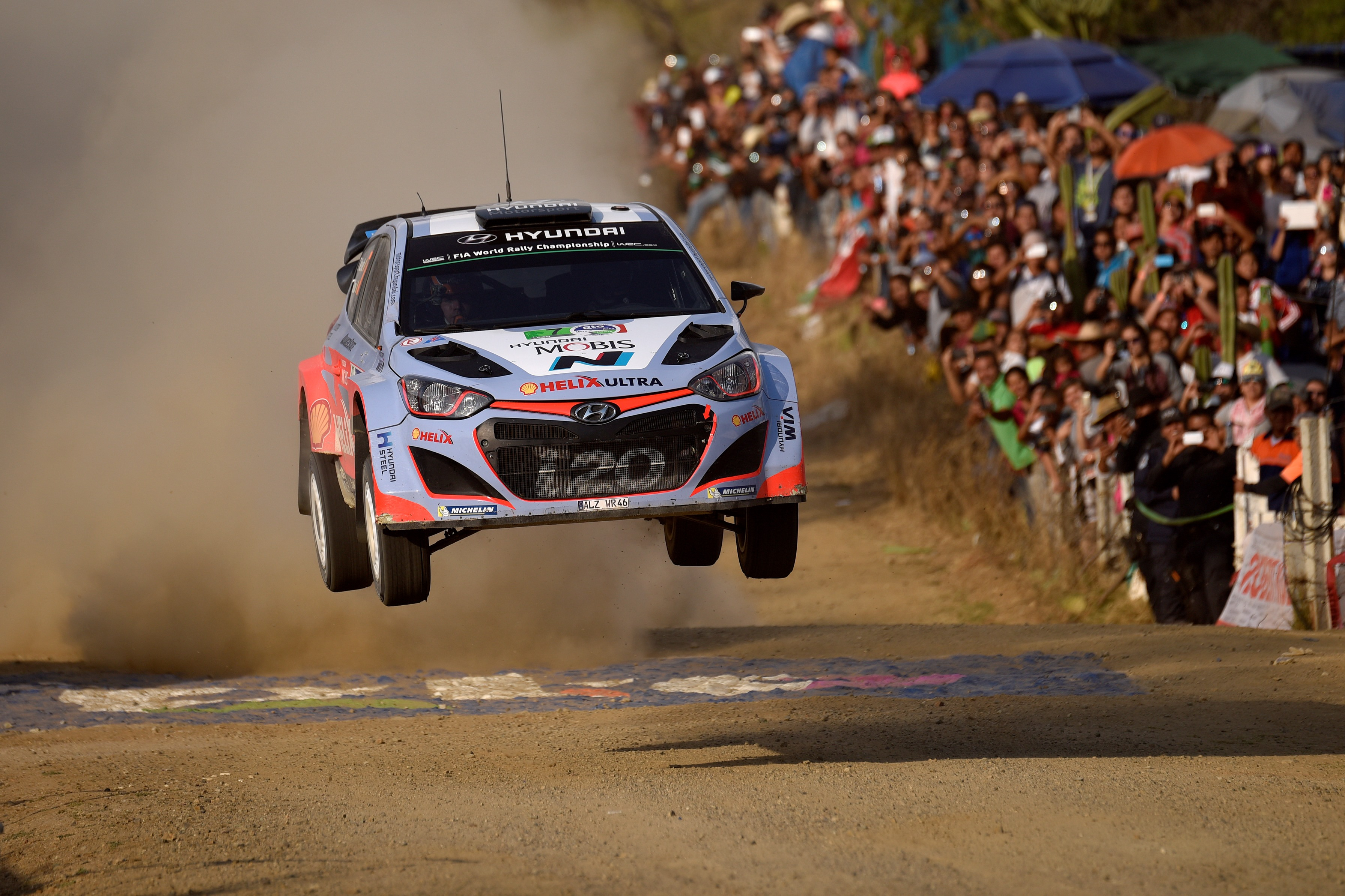 Thierry Neuville and co-driver Nicolas Gilsoul in their Hyundai i20 WRC at the 2015 Rally Mexico.